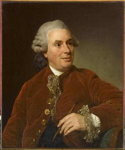 Portrait of Charles-Nicolas Cochin fils (1715-1790), French artist